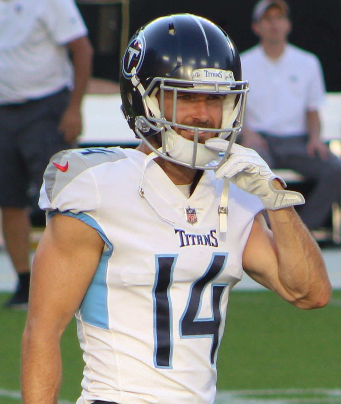 Nick Williams, Tennessee Titans at Green Bay Packers (Preseason), August 9, 2018